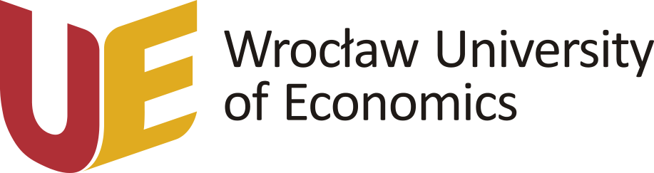 English, vertical version of Wrocław University of Economics